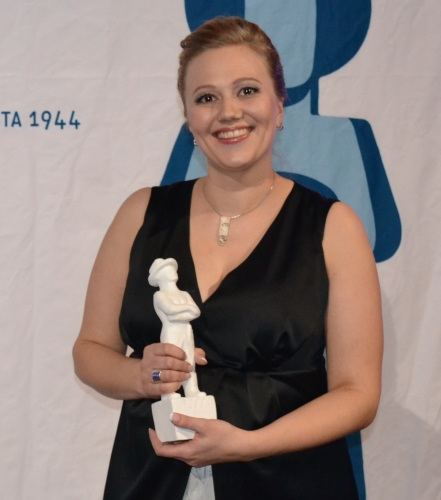 Saija Siekkinen in 2010 Jussi Award.